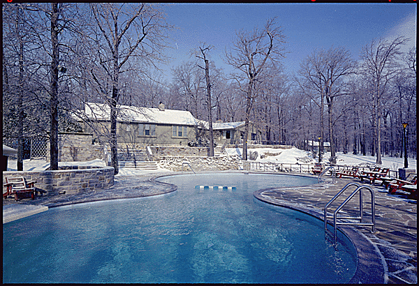 Exterior of Camp David lodge with swimming pool in foreground.